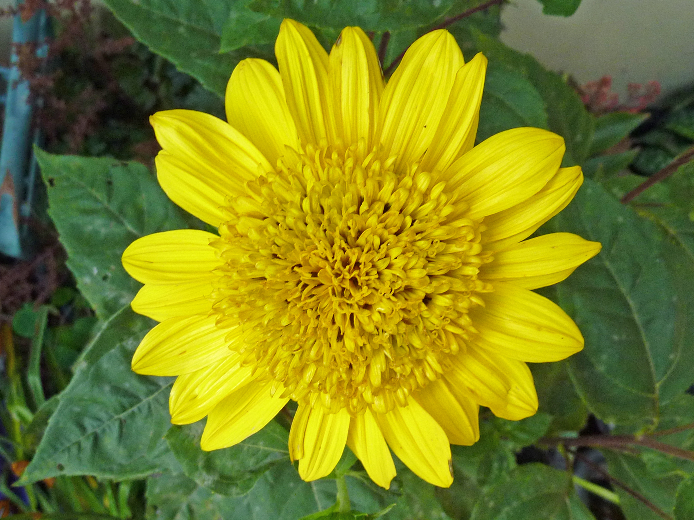 Helianthus decapetalus 'Plenus' in the garden of botanist Robert R. Kowal, Madison, Wisconsin, USA.